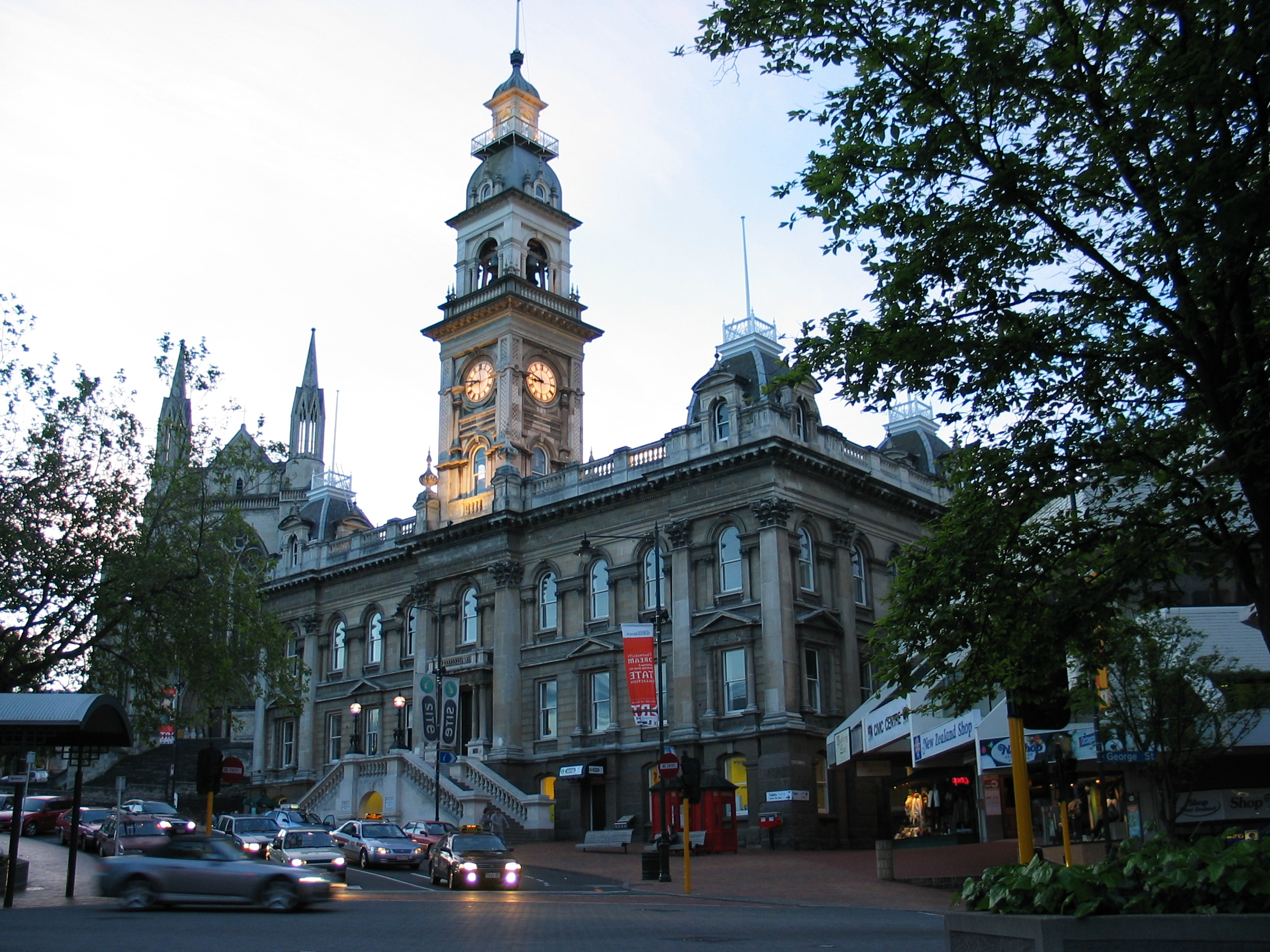 Octagon town centre Dunedin, South Island, New Zealand